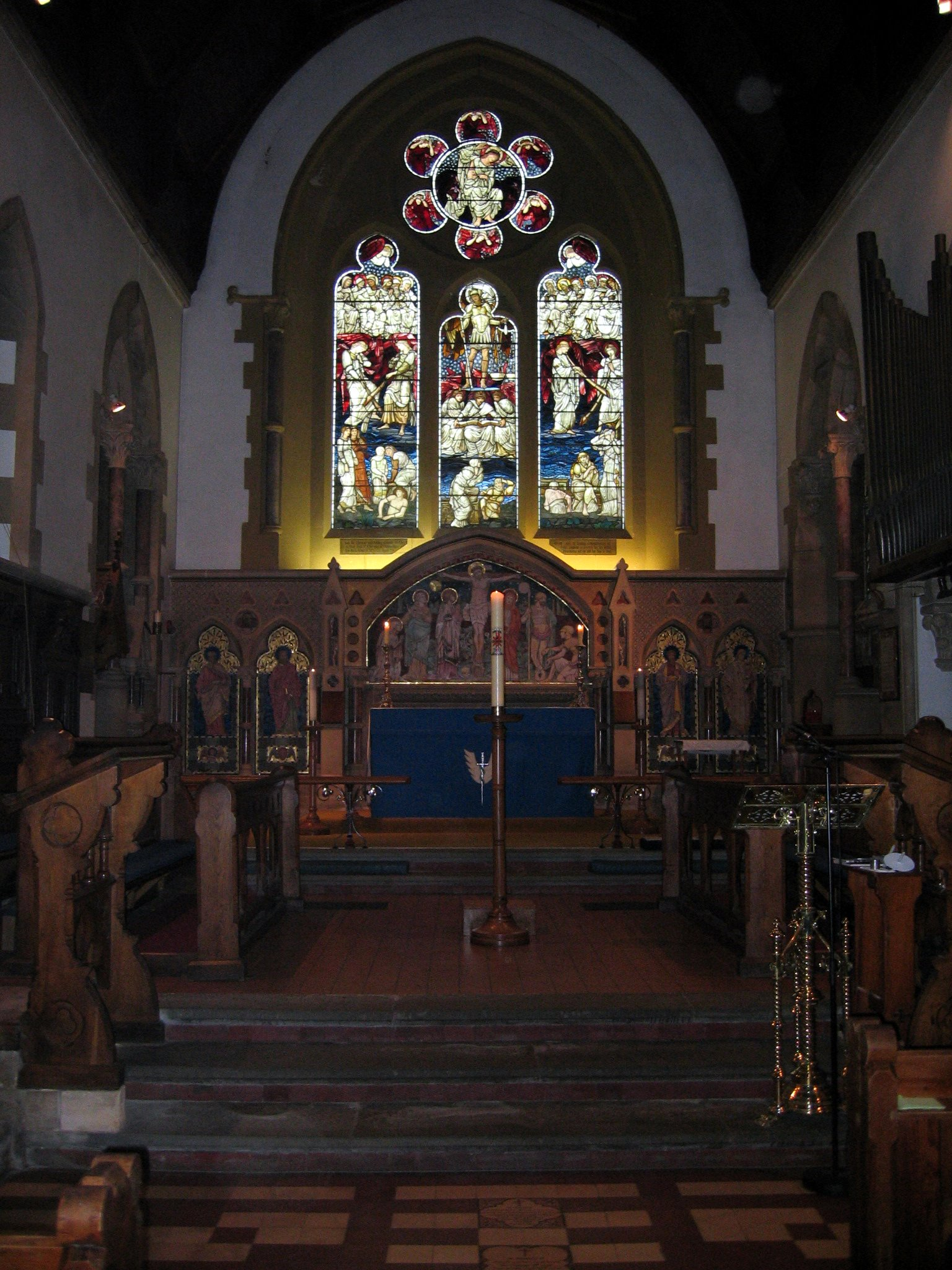 The chancel of St Michaels Church, Easthampstead, Berkshire. UK